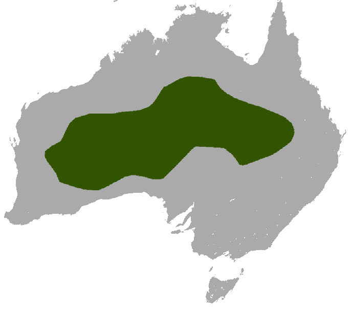 Wongai Ningaui (Ningaui ridei) range